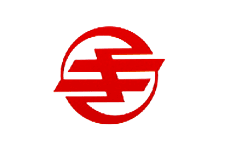 Flag of Kikai Kagoshima